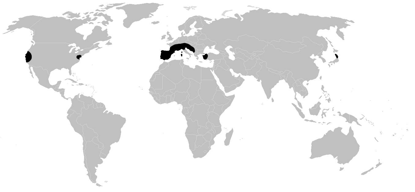 World distribution of harvestman family Sironidae, after Pinto-da-Rocha et al. 2007: 79.